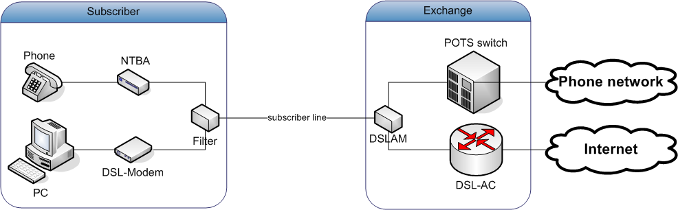 DSL (Digital Subscriber Line) principle (engl. version)